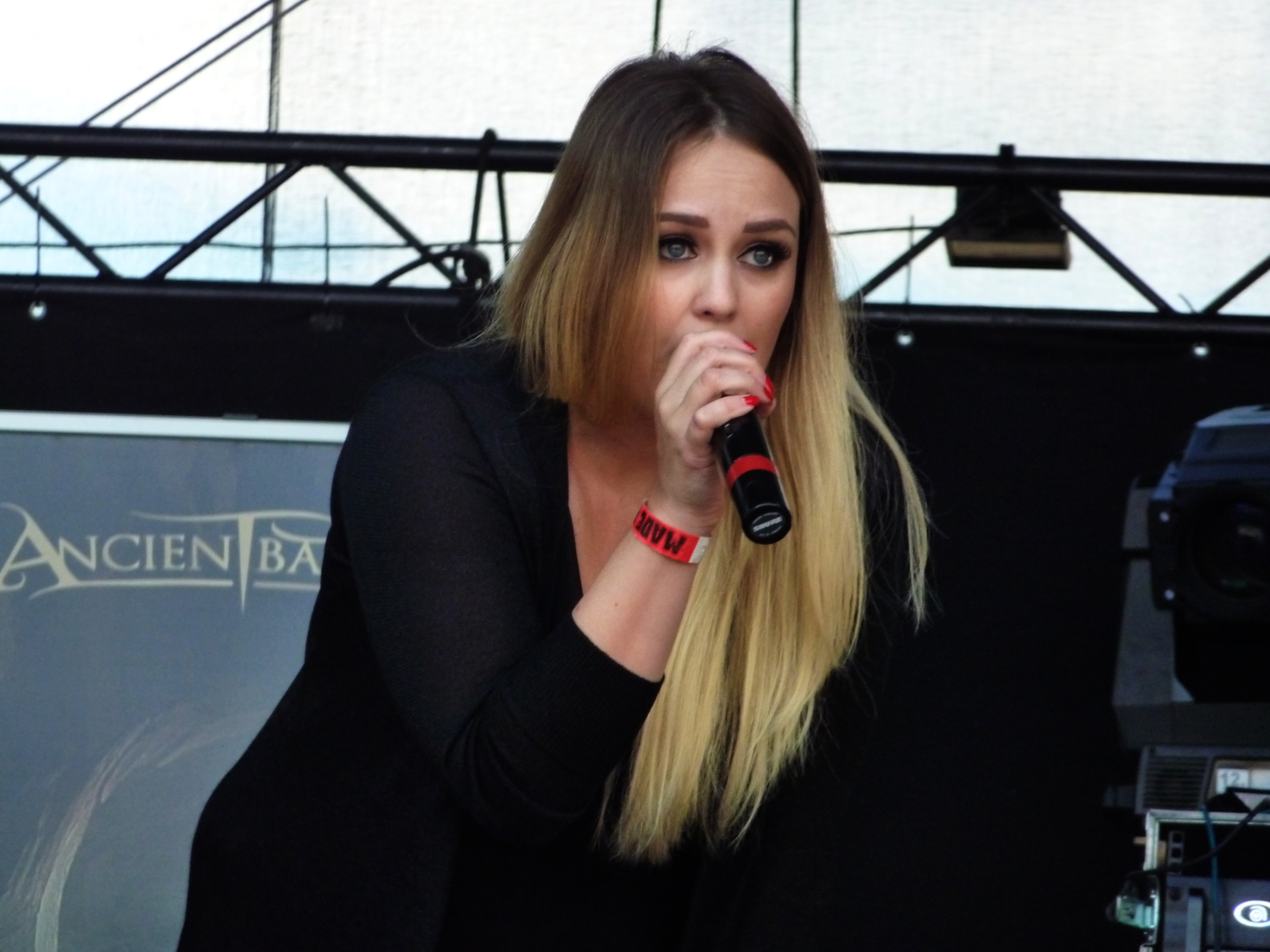 Sara Squadrani during Ancient Bards show at Made of Metal music festival (Hodonín, Czech Republic, 17/08/2014)